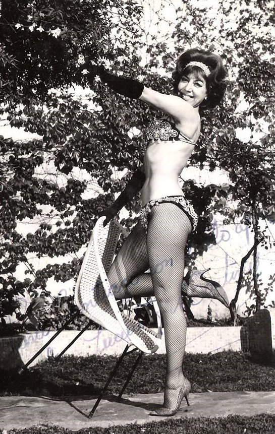 Juanita Martinez- actriz y vedette